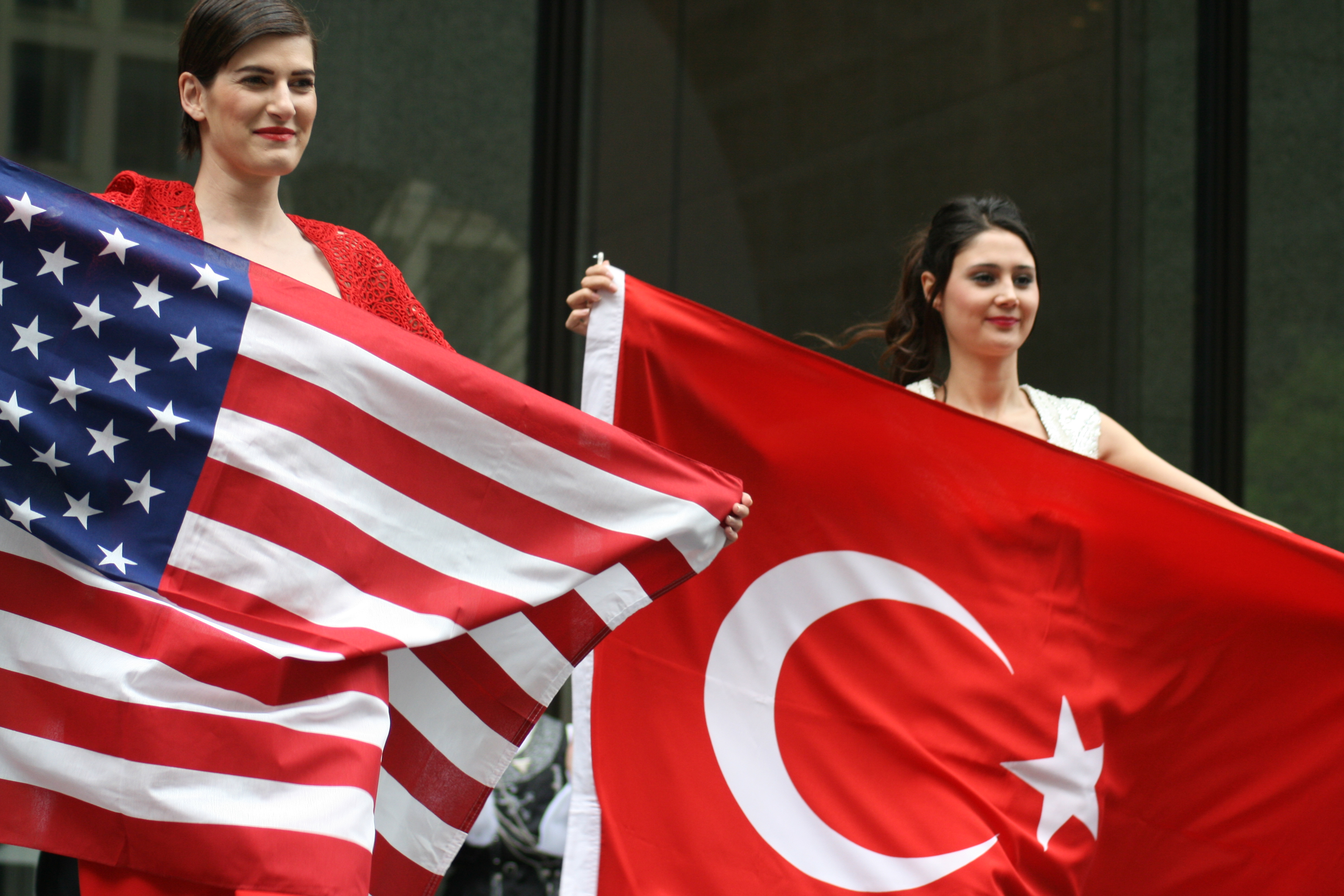 Turkish girls holding the flag of the US and Turkey.